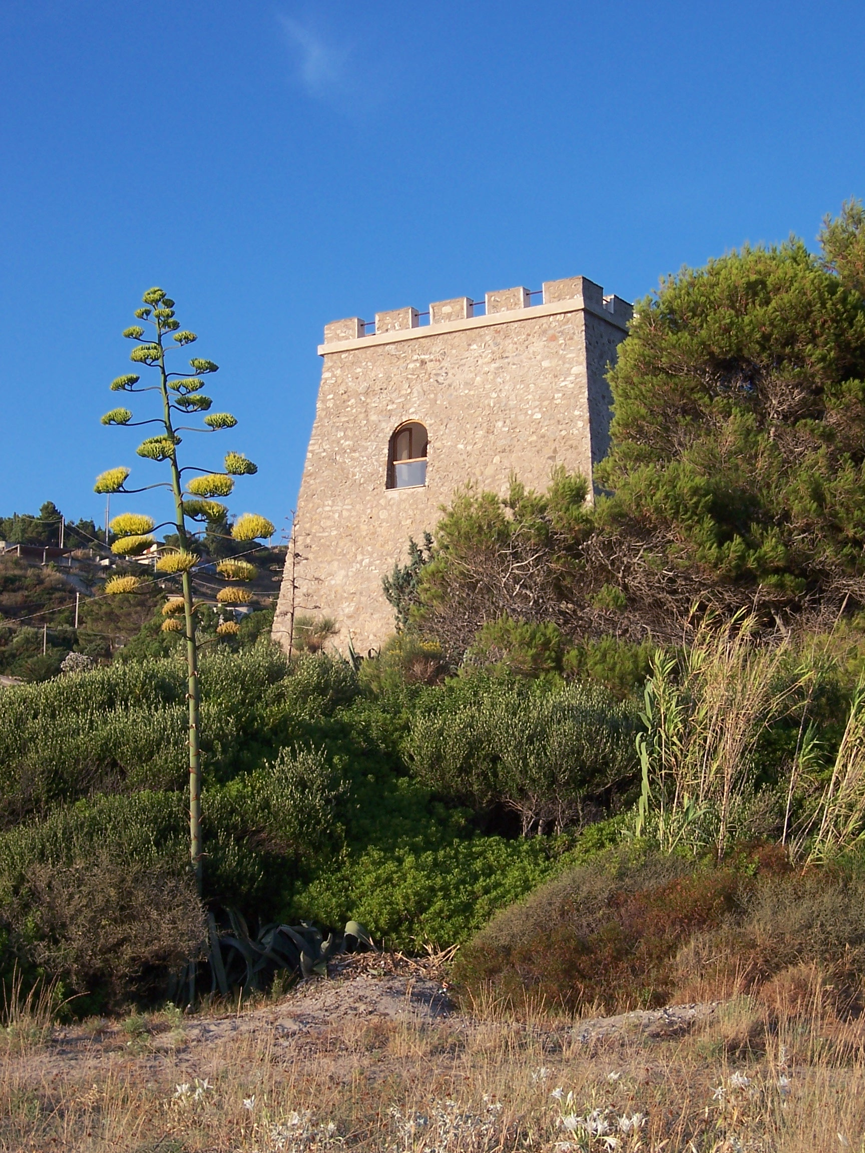 A picture from the beach to the west-side of "Torre dei Caprioli"